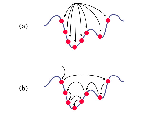 Path and population metaheuristics. Created with Inkscape, see the SVG sources below.